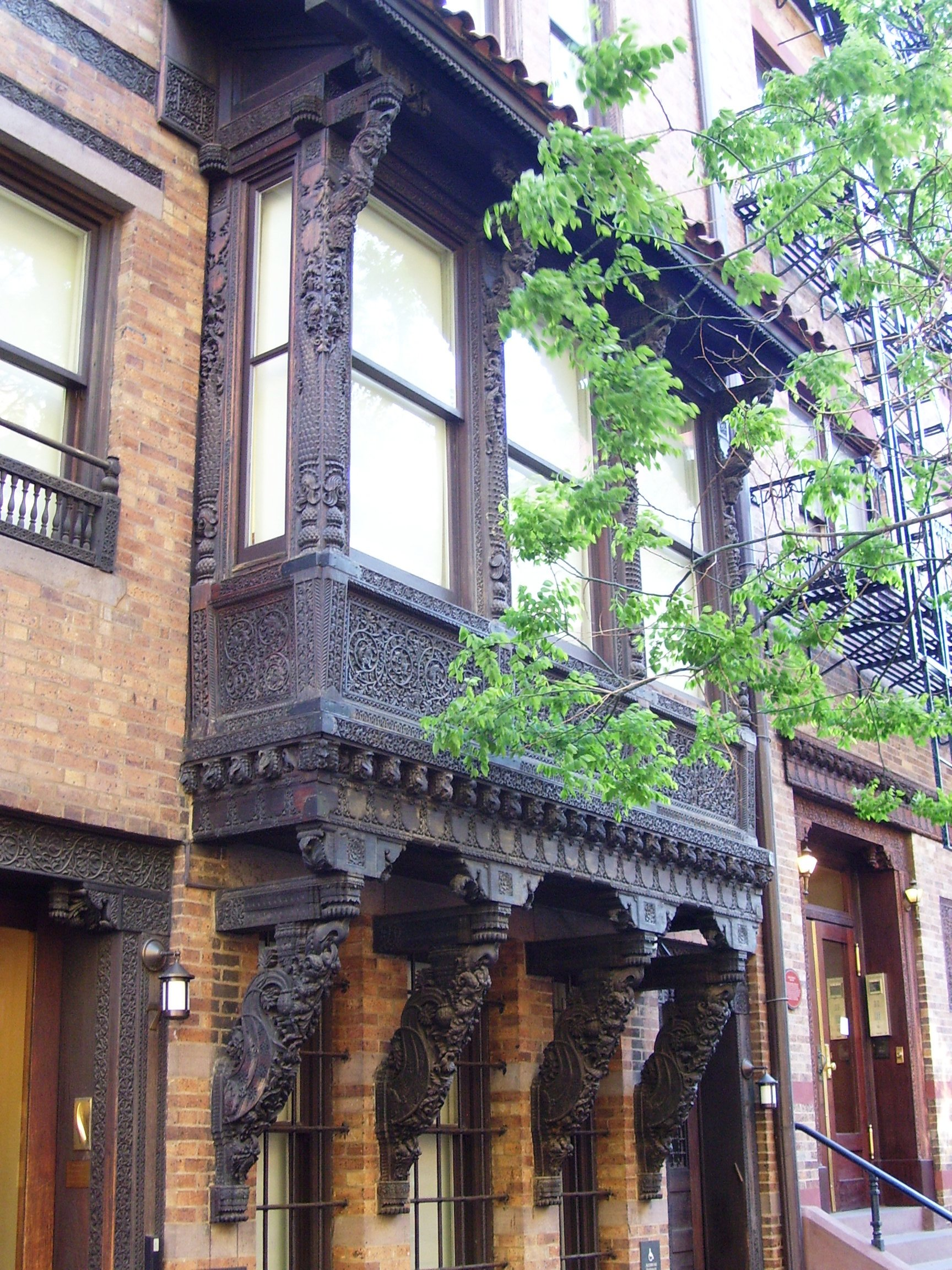 The Lockwood de Forest House at 7 East 10th Street between Fifth Avenue and University Place in the Greenwich Village neighborhood of Manhattan, New York City, was built in 1887 and designed by Van Campen Tayler. The house was purchased by New York University, and restored in 1995-97 by Helpern Associates. It is now the Bronfman Center for Jewish Student Life. It is located within the Greenwich Village Historic District. (Source: Guide to NYC Landmarks (4th ed.) and AIA Guide to NYC (4th ed.))